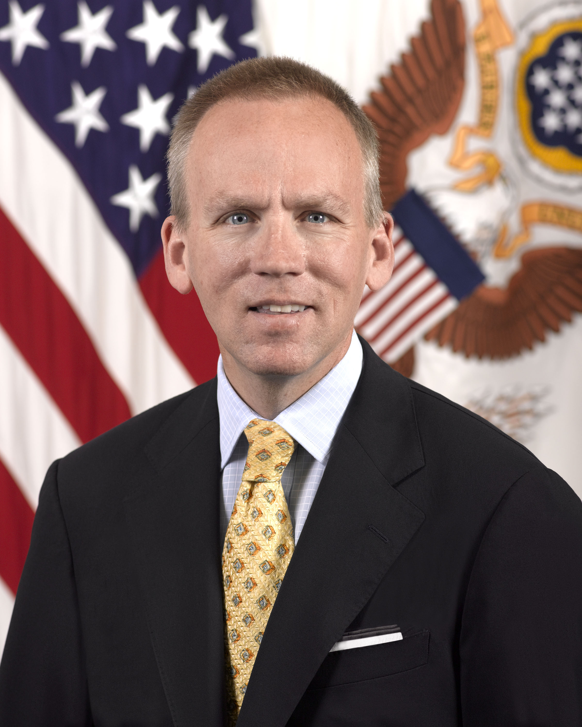 United States Department of Defense portrait of Brad Carson, Acting Under Secretary of Defense for Personnel and Readiness as of 2015.